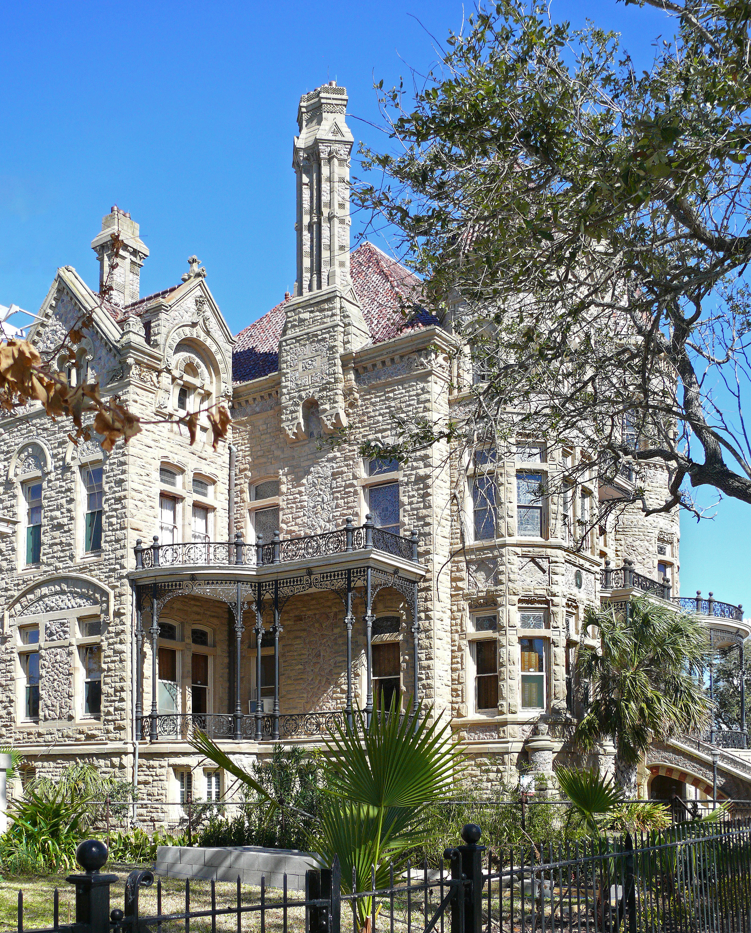 This is an uncommon (west side) view of the Bishop's Palace in Galveston